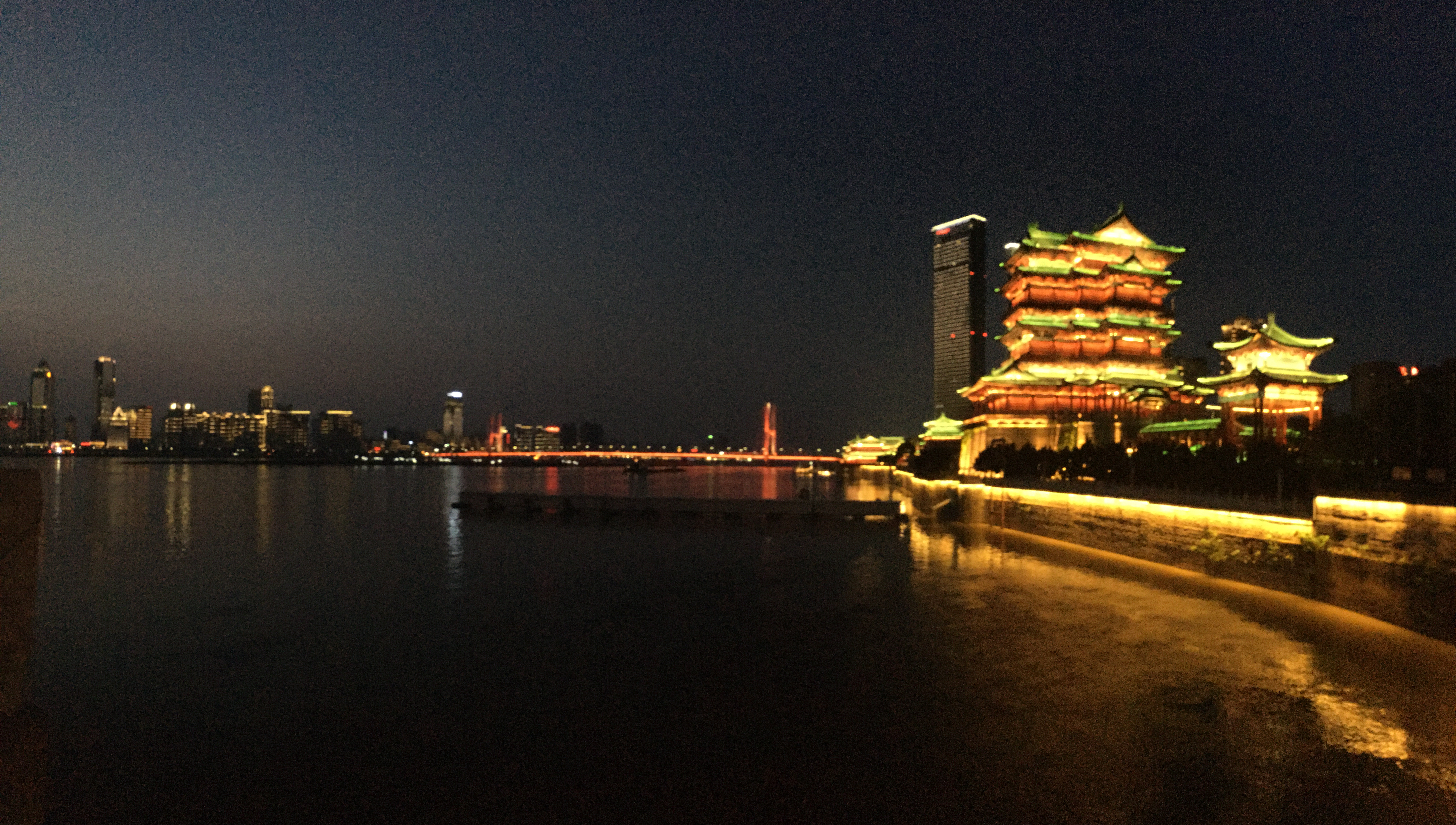 Tengwang Pavilion is located on the shore of the Kan, in Nanchang City, Jiangxi Province. Together with Yellow Crane Tower, Yueyang Pavilion (Yueyang Lou) , this fine building is one of the three most notable pavilions on south side of the Yangtze River. It also has the reputation of being the 'First Pavilion of Xijiang River' and has been widely admired by visitors from all over the world. In terms of its height, overall size and architectural style, this pavilion is a prime example of such buildings for which China is justifiably famous.